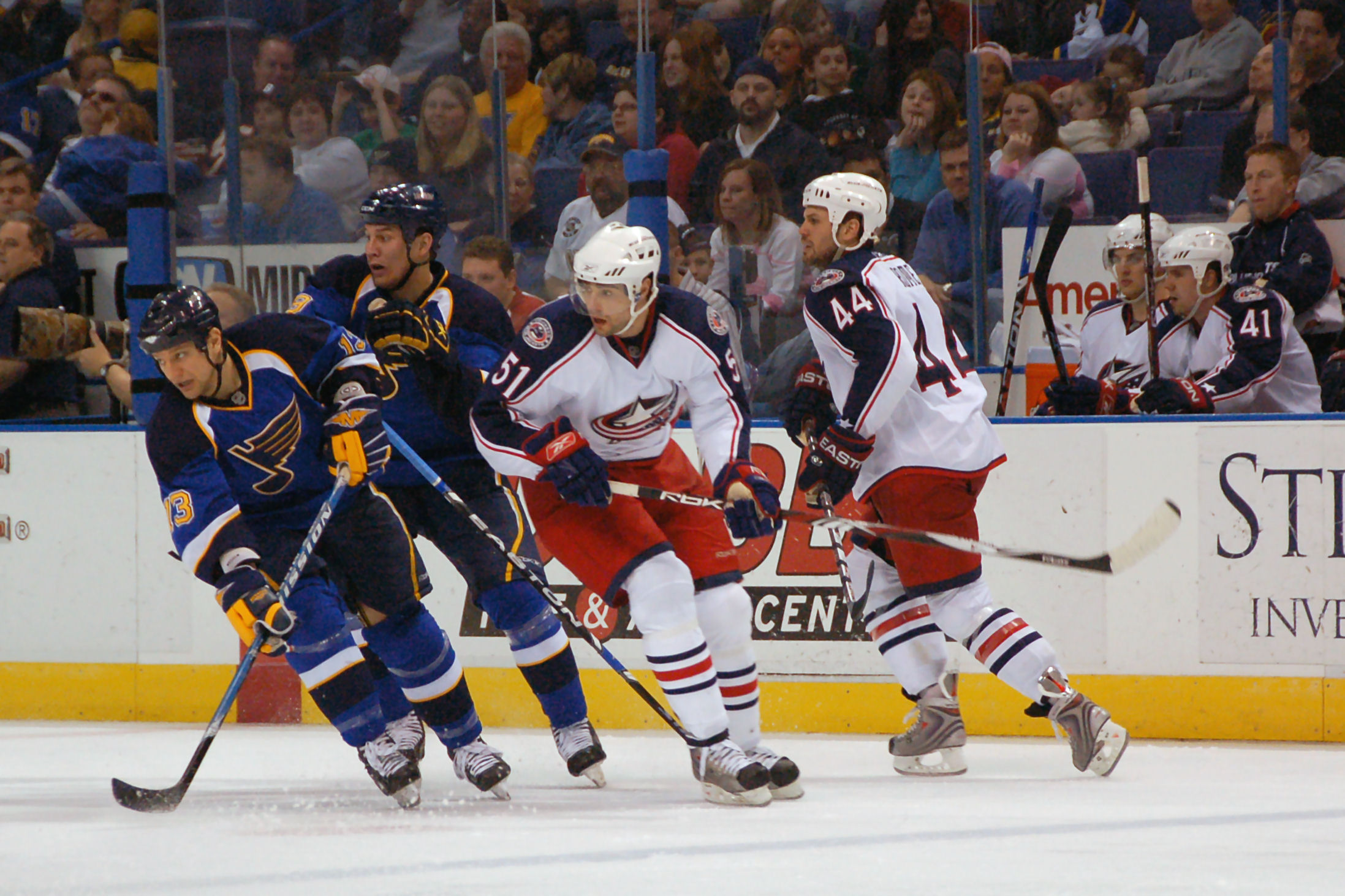 #13 Dan Hinote secures the puck against #51 Andrew Murray and #44 Aaron Rome; #8 Matt Walker in the background